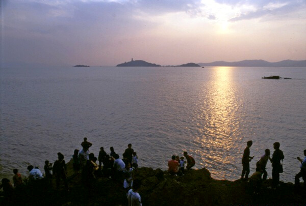 Yuantouzhu peninsular, Sanshan Islands and Lake Tai, taken via Canon EOS-50E SLR camera and KodakChrome E100VS